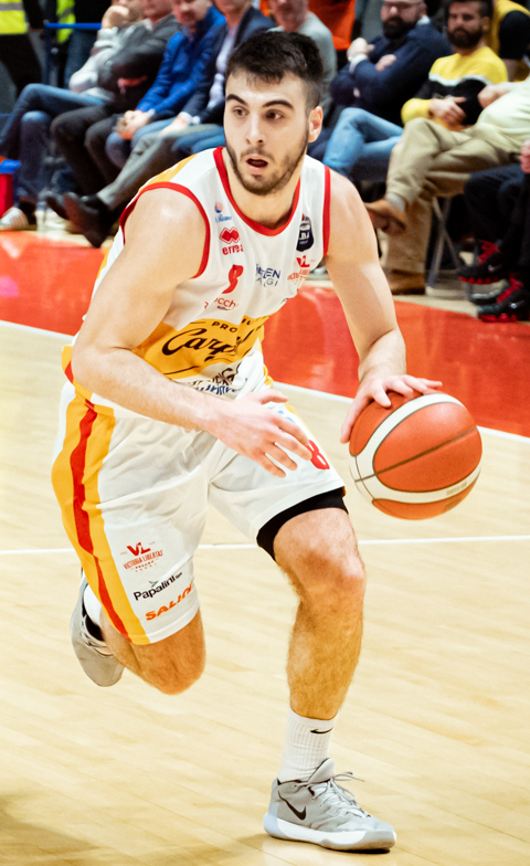 Vasa Pusica